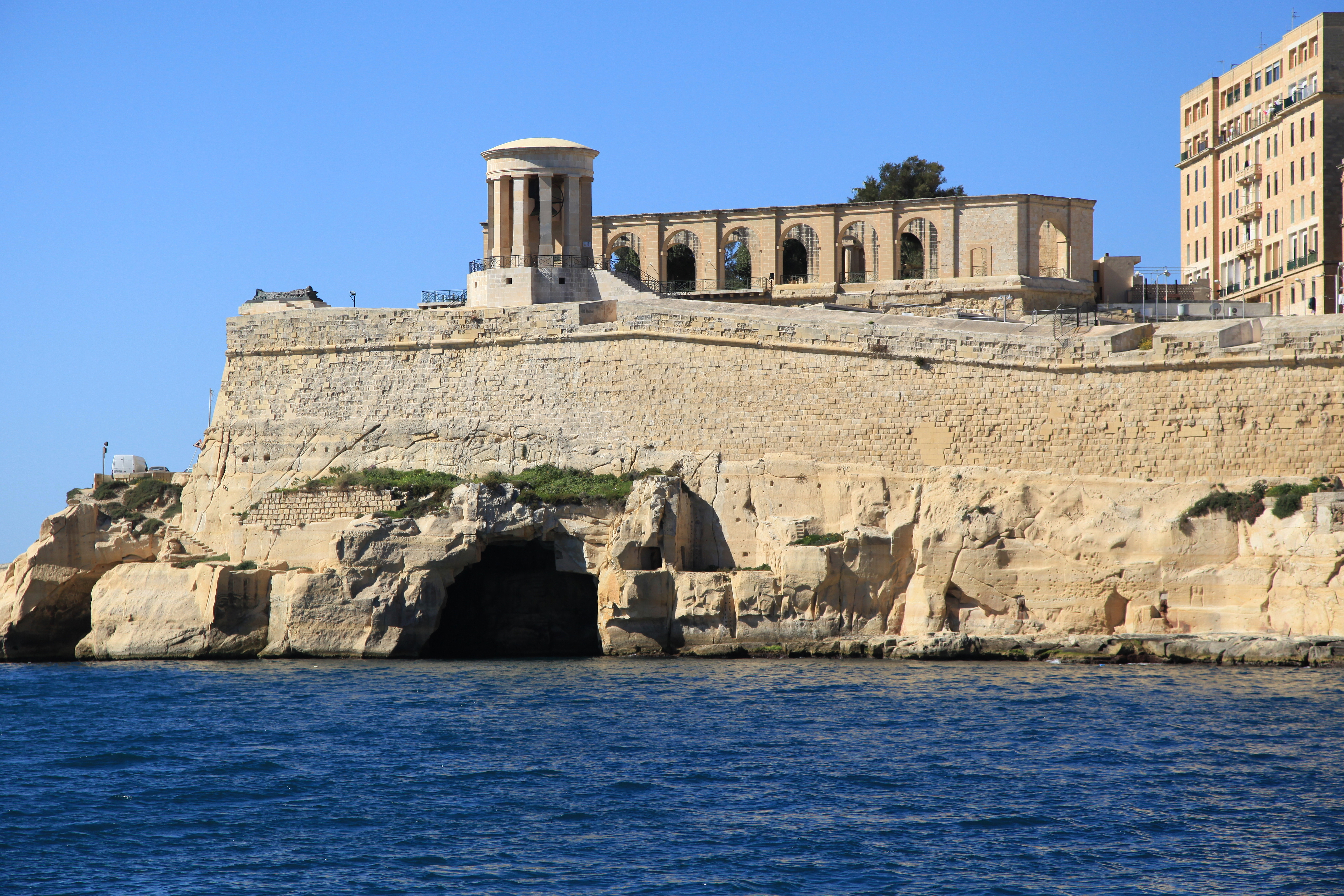 View from a Malta sightseeing two harbours cruise boat to the Lower Barrakka Gardens and the Siege Bell War memorial at Triq il-Mediterran/Triq il-Lanċa in Valletta, Malta